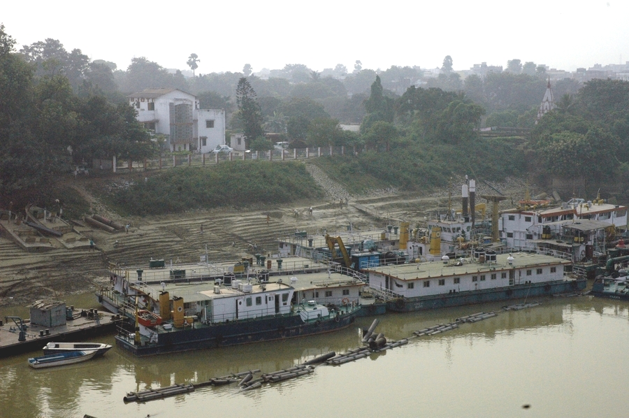 Gai Ghat Patna